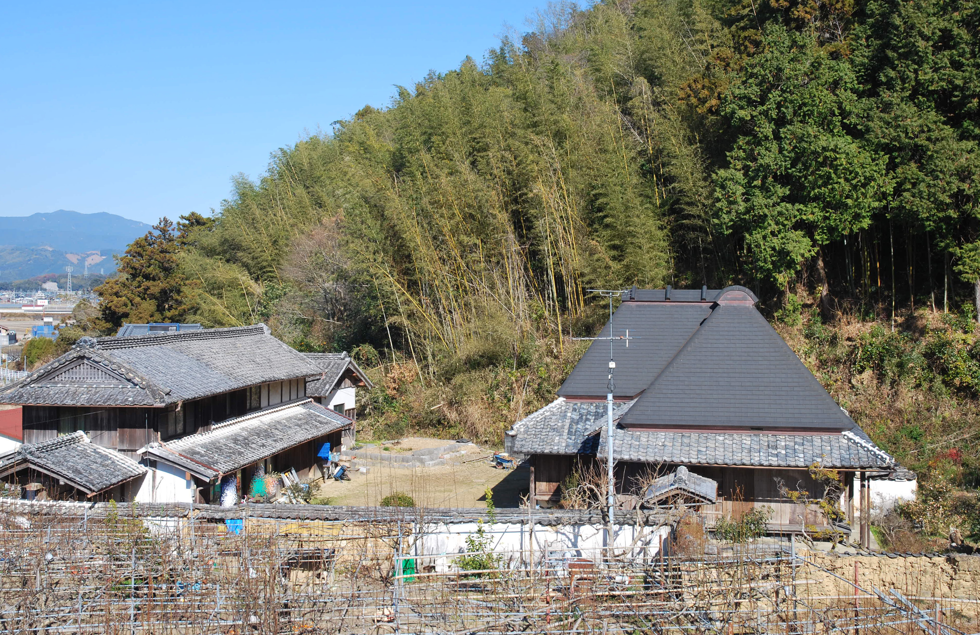 Takechi Hanpeita's old house